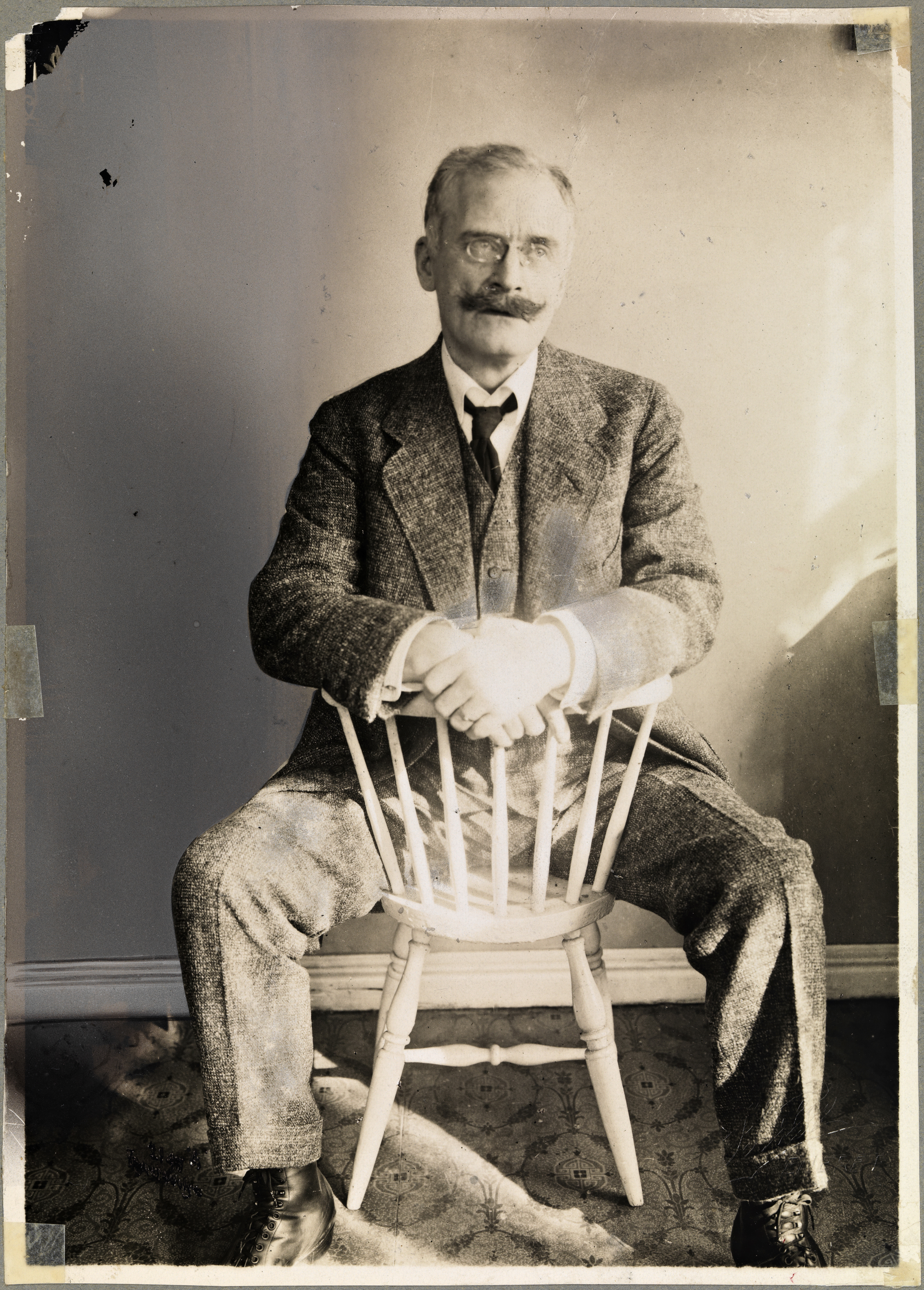 Knut Hamsun photographed by Anders Beer Wilse in April 1914. Digital copy of original: s/h papirpositiv. Image Number / bldsa_HA0321 Owner: National Library of Norway